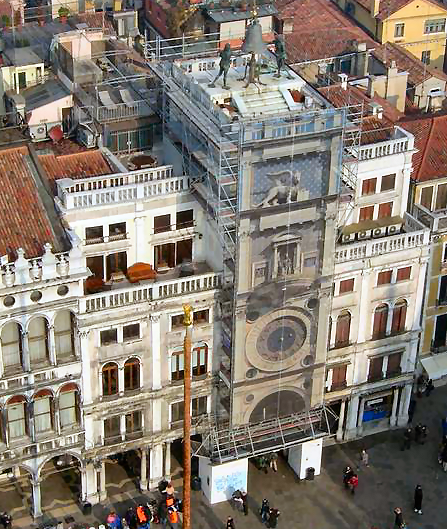 St Mark's Clocktower undergoing renovation in early 2004